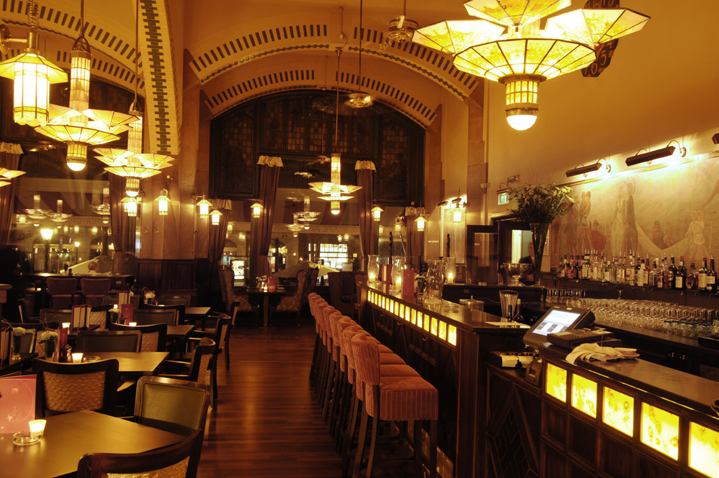 Impression of the interior of Café Americain